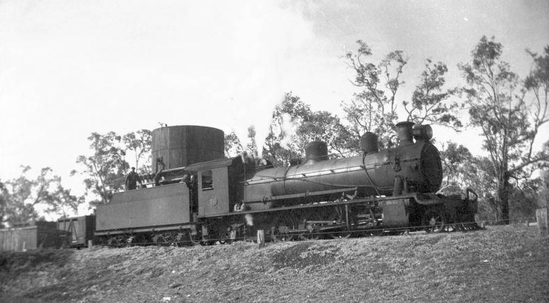 MRWA A class steam locomotive no. A26 taking water at Gingin on the Midland Railway, Western Australia.